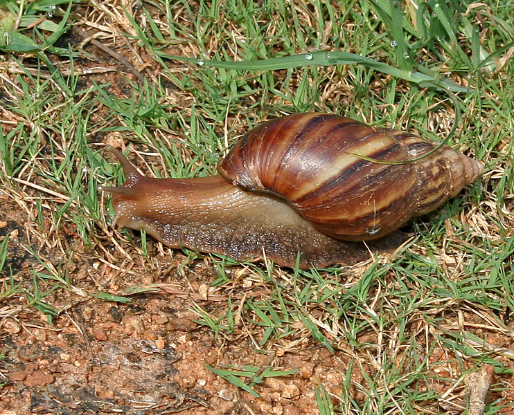 Giant African Land Snail Achatina fulica in Hyderabad , India.